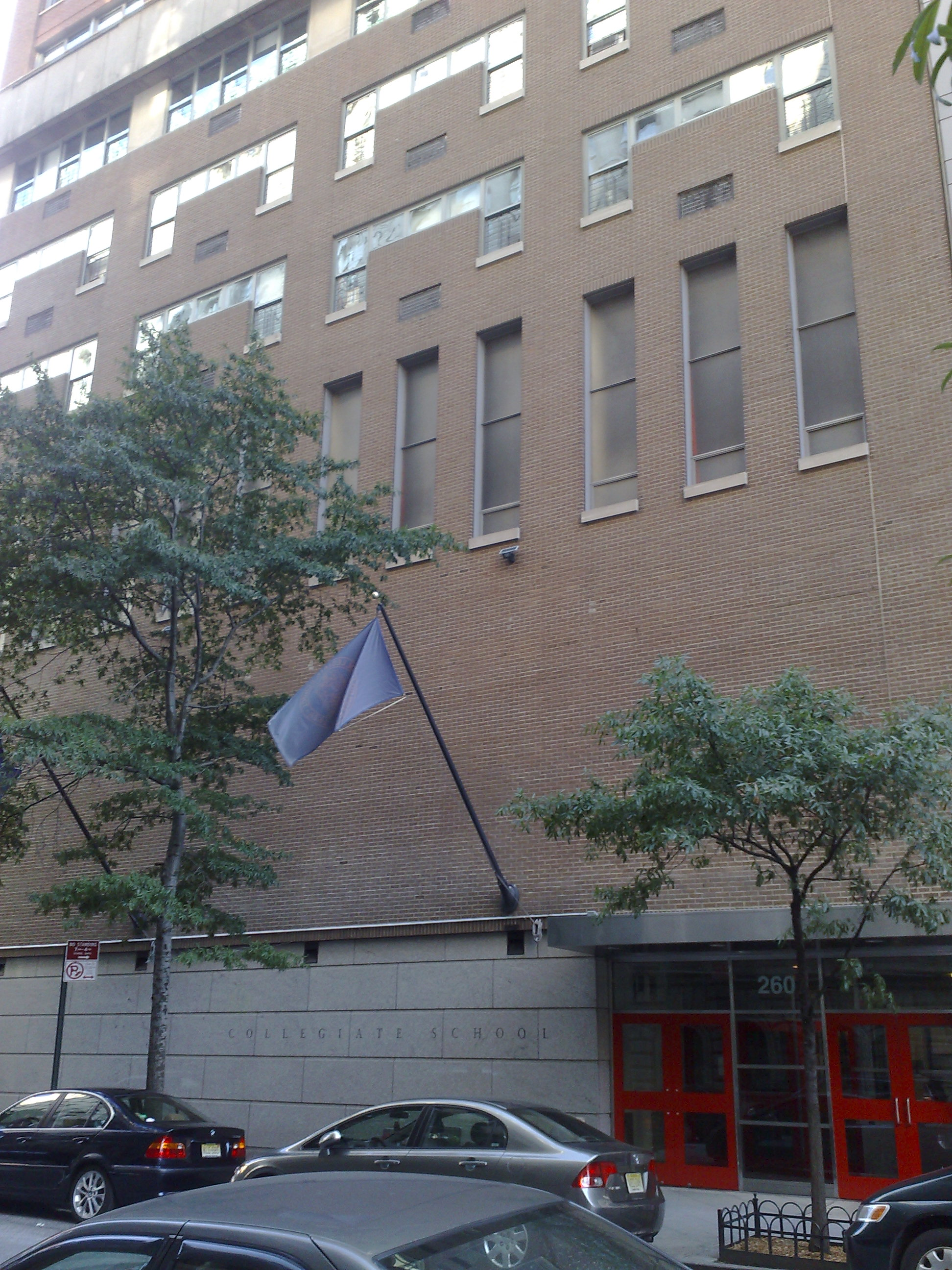 This photo is of Wikis Take Manhattan goal code A7, Collegiate School (New York).